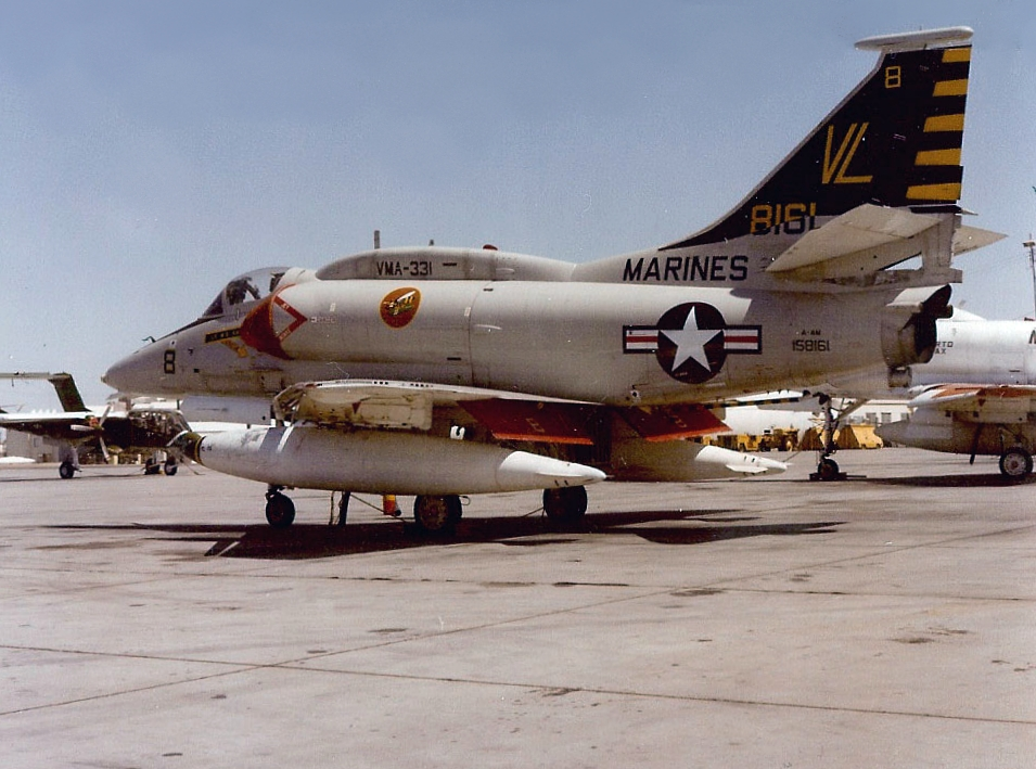 A U.S. Marine Corps Douglas A-4M Skyhawk (BuNo 158161) from Marine Attack Squadron VMA-331. This aircraft was sold to Argentina in 1995 ("C-906"). It crashed near Justo Daract, San Luis Province on 6 July 2005. The pilot was killed.